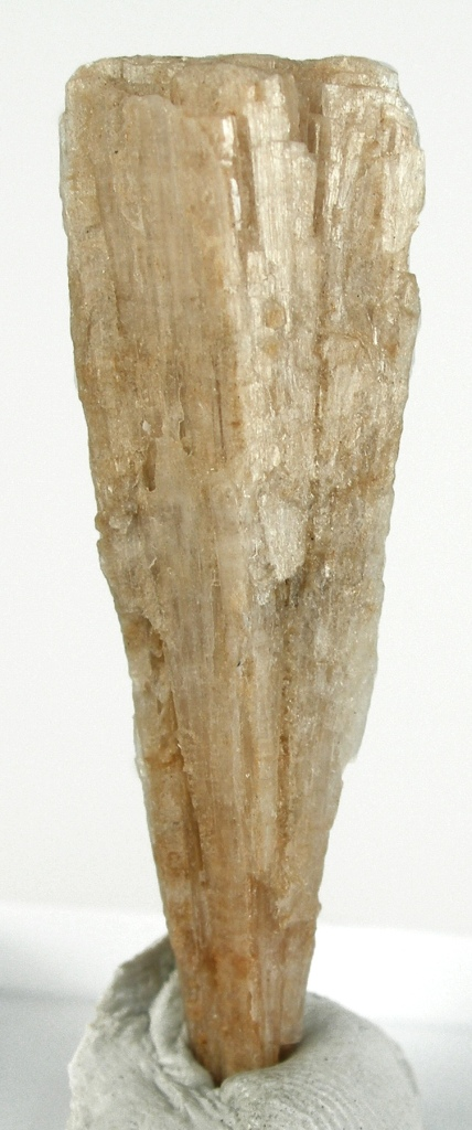 Syngenite Locality: Niedersachsen Potash Works, Wathlingen, Celle, Lower Saxony, Germany (Locality at ) Size: 4.4 x 1.3 x 0.6 cm. A sharp, tapering crystal with a broad, chisel-like termination. Syngenite is a potassium, calcium sulfate, rarely forming good crystals in this size.